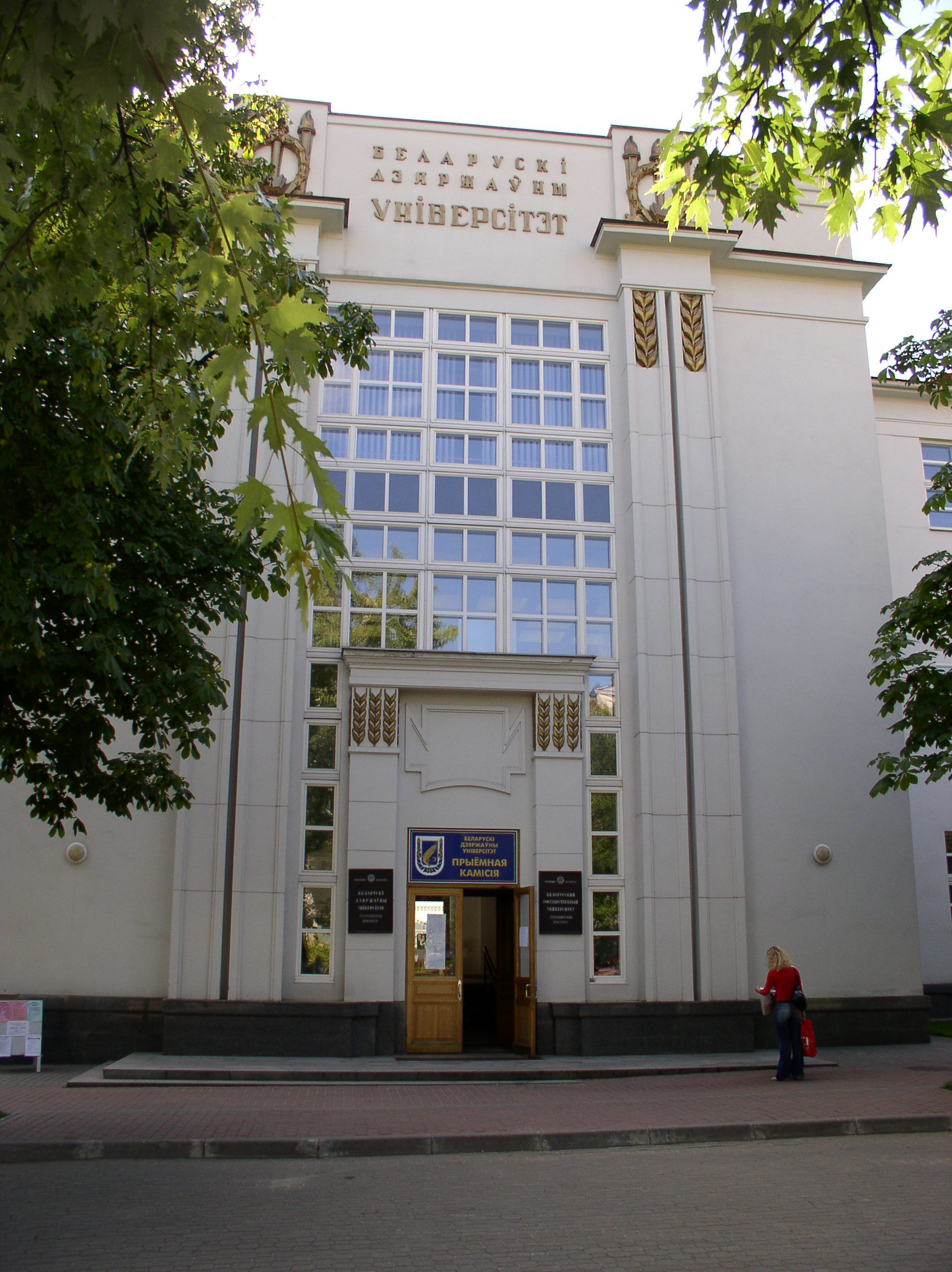 Geography faculty. Belarusian State University, Minsk, Belarus.